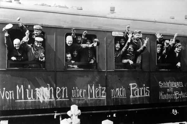 German soldiers going to front.